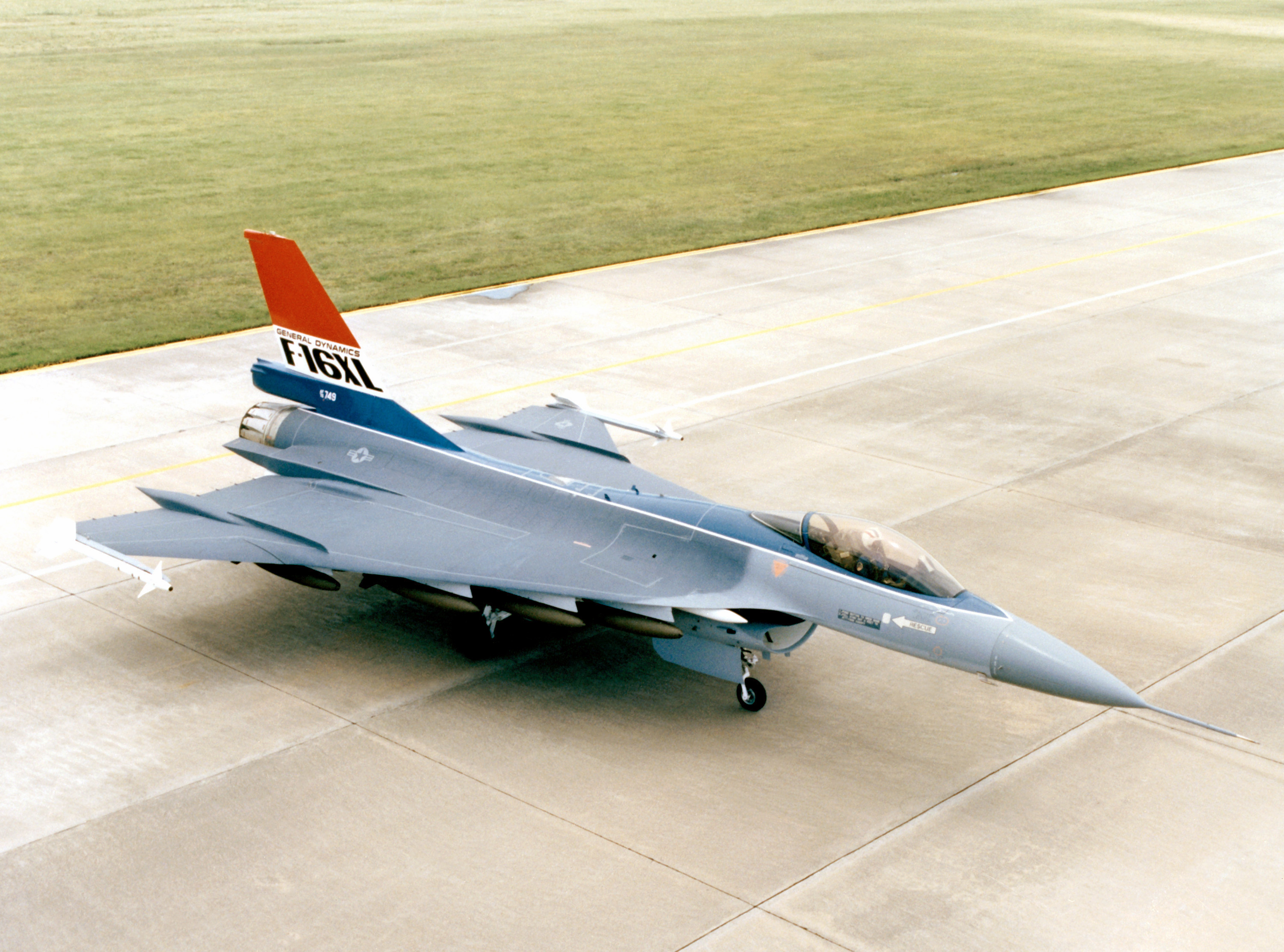 A high angle 3/4 right front view of a parked F-16XL Fighting Falcon aircraft armed with AIM-9 Sidewinder missiles. The aircraft features a cranked arrow wing for improved subsonic and supersonic flight, semi-conformal weapons carriage for reduced weight and drag, and fly-by-wire complete electronic flight control system.